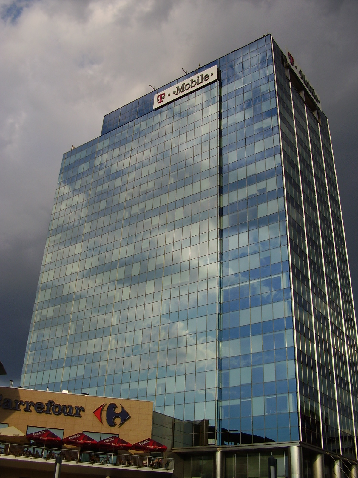 Millennium Tower I, 2001, Bratislava, Slovakia